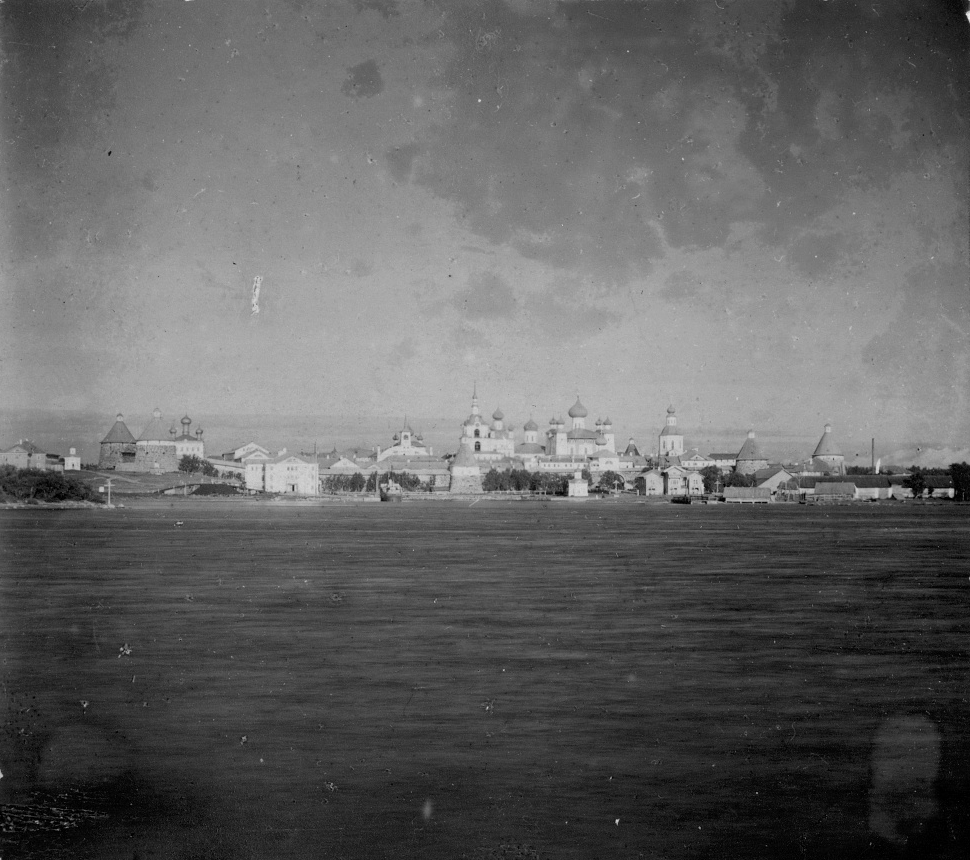 Obshchīĭ vid Solovet︠s︡kago monastyri︠a︡. [Solovet︠s︡kie ostrova]